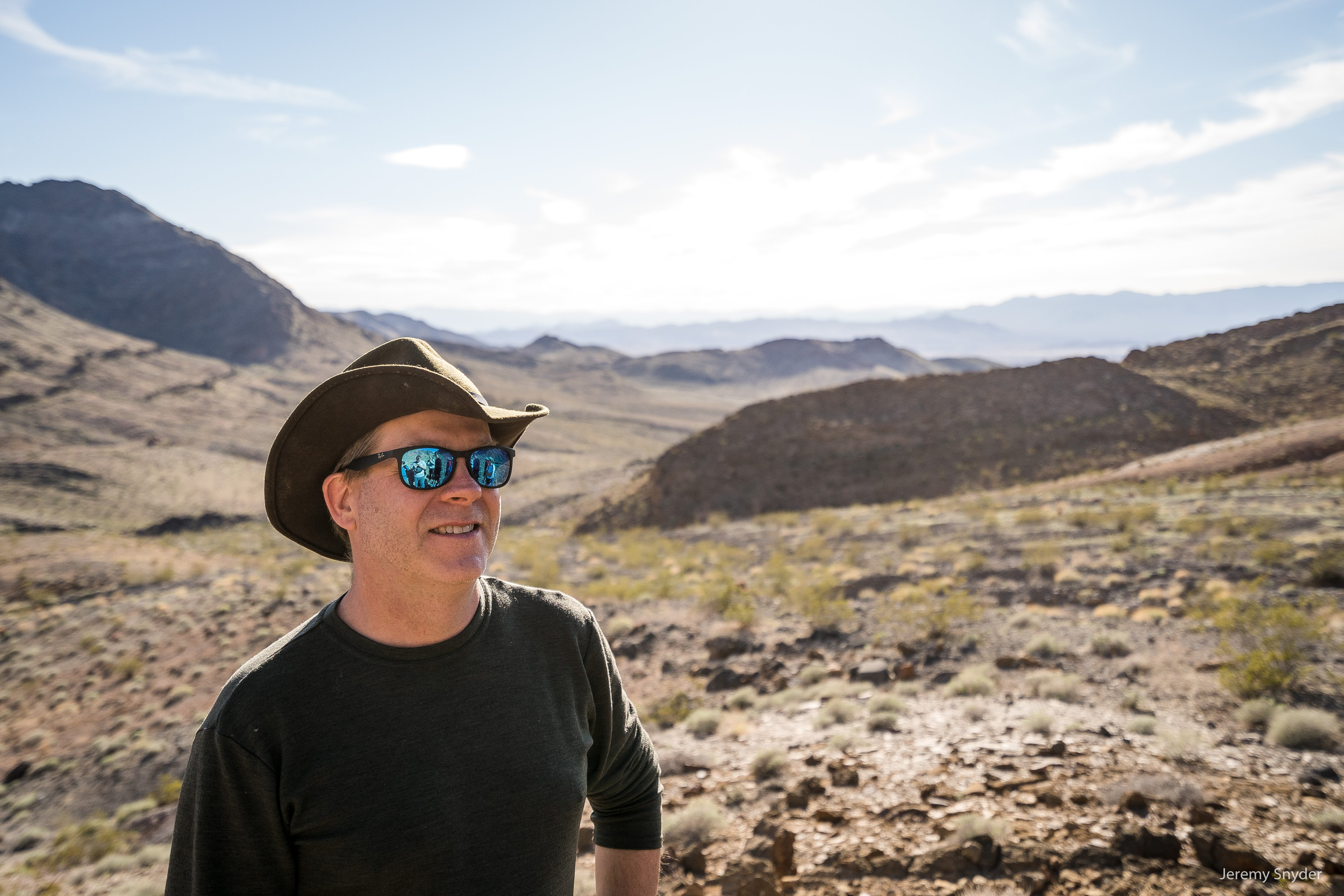 Bob Gaines on a field trip in the Nopah Range Wilderness Area, CA. Photo taken by student, Jeremy Snyder